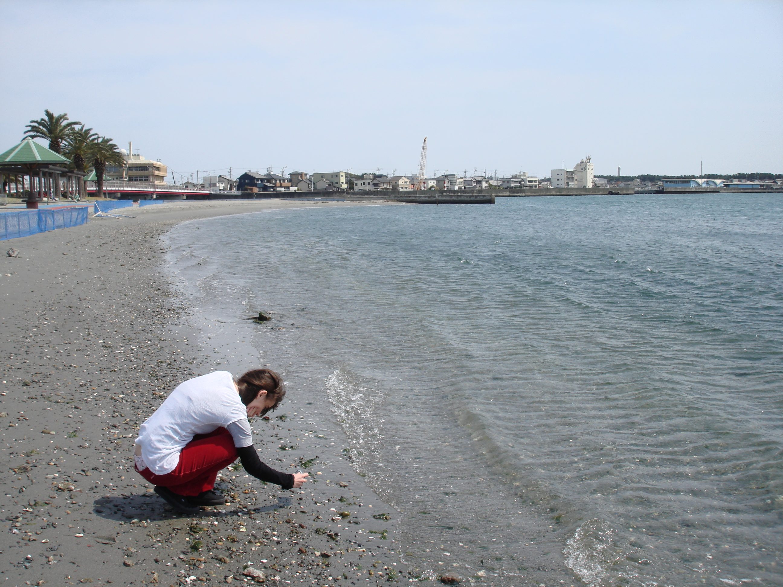 Lake Hamana's beach just south of Bentenjima Station. Fixed the geo tag data.--トトト (talk) 07:42, 26 September 2011 (UTC)